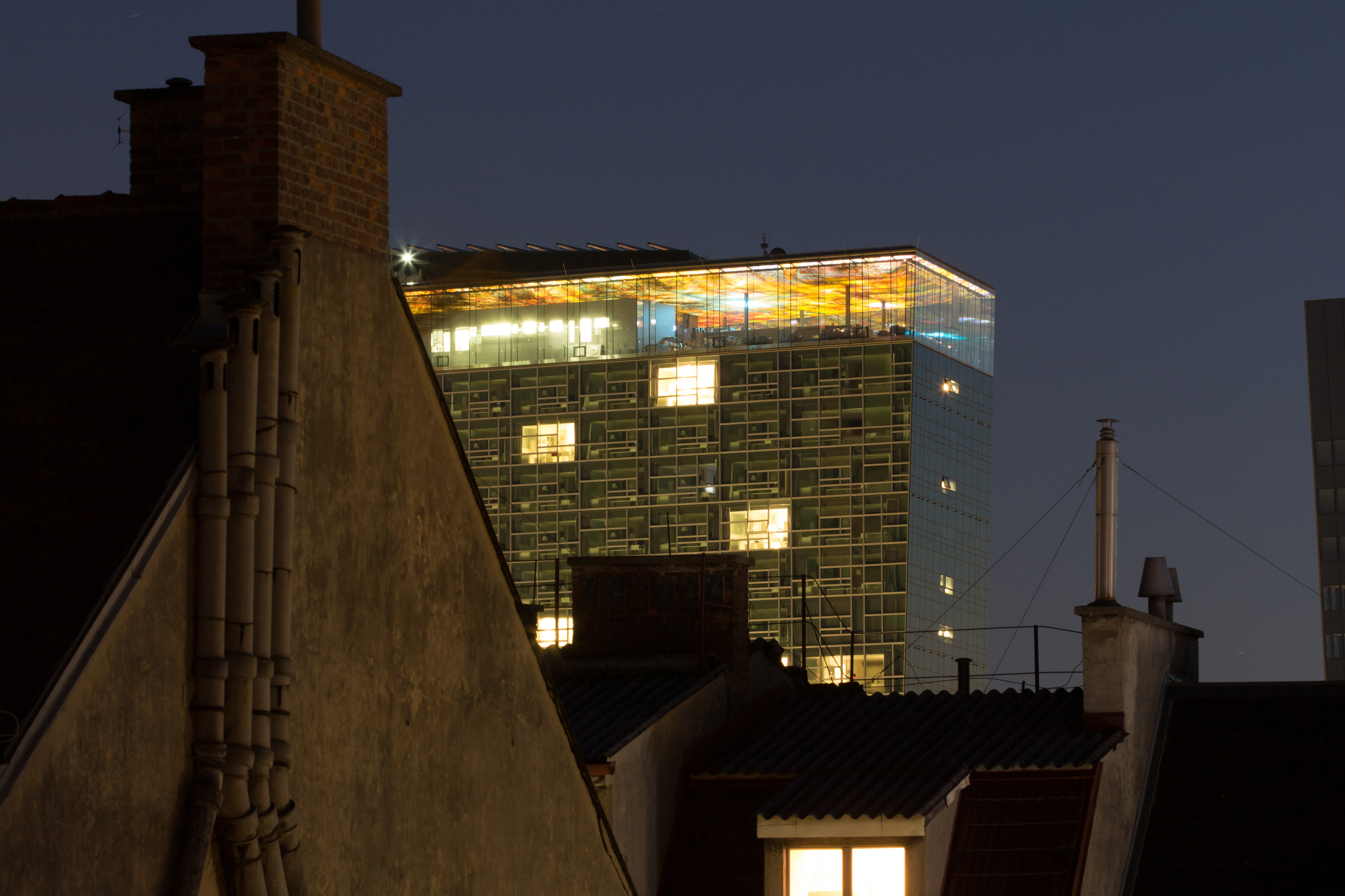 The Nouvel Tower Vienna, Design Tower, Jean Nouvel (2007-2010), Praterstraße 1, 1020 Wien, Backside view from the Karmeliterviertel